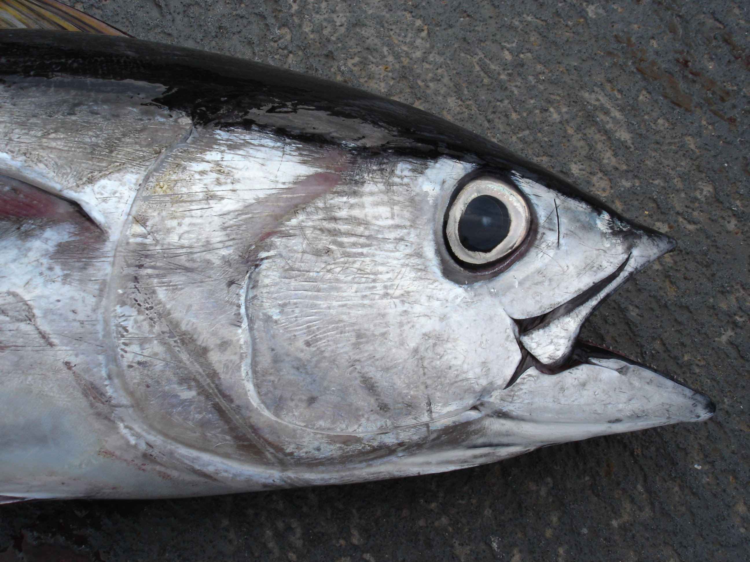 Thunnus obesus (bigeye tuna)